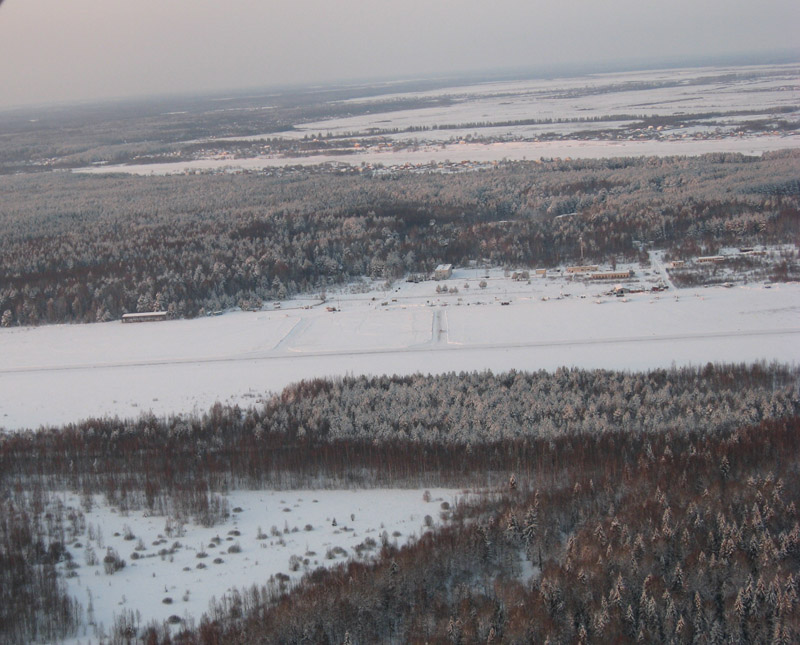 Kimry (Borki) airport runway in winter